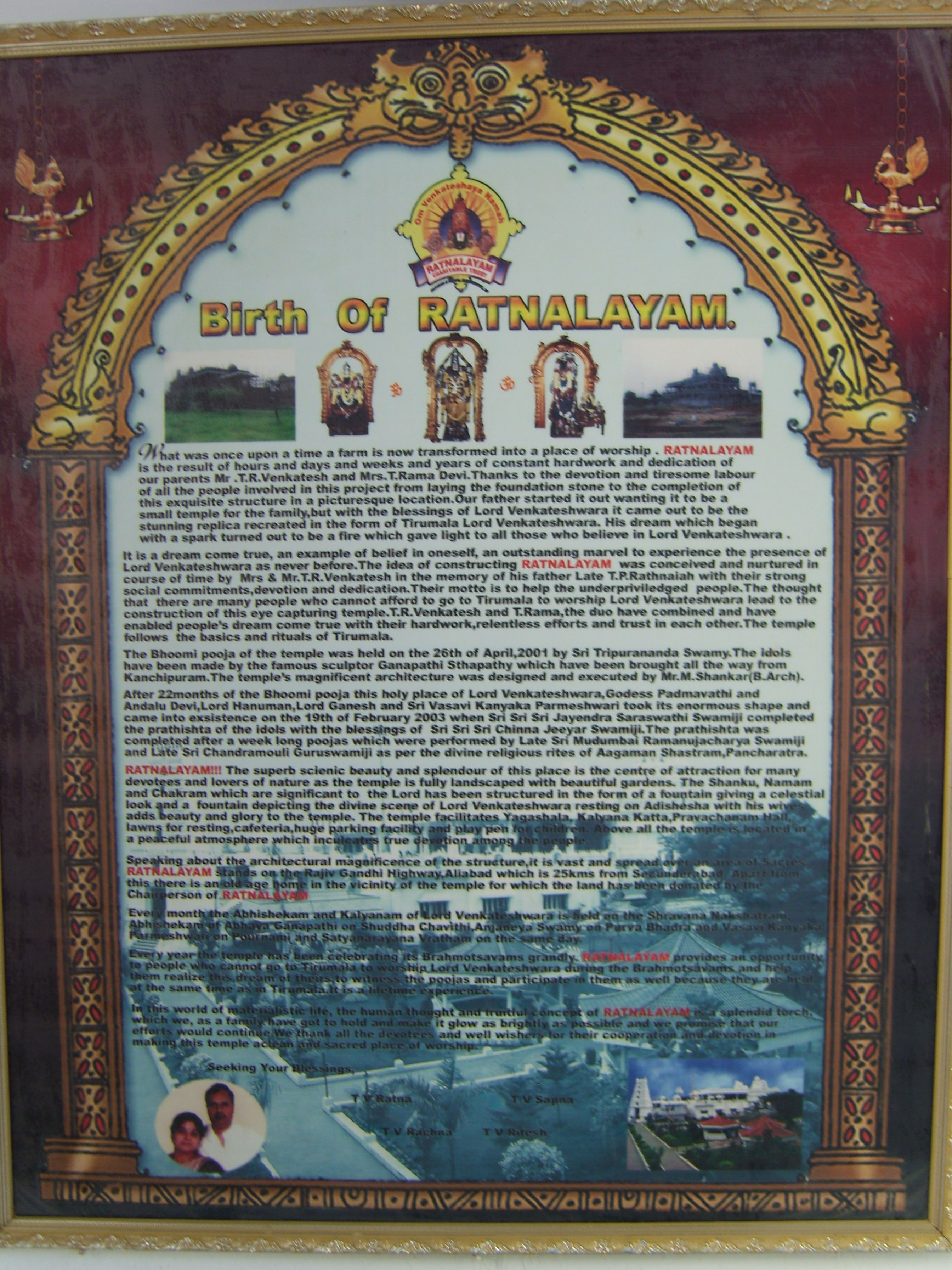 Ratnalayam Venkateswara Temple